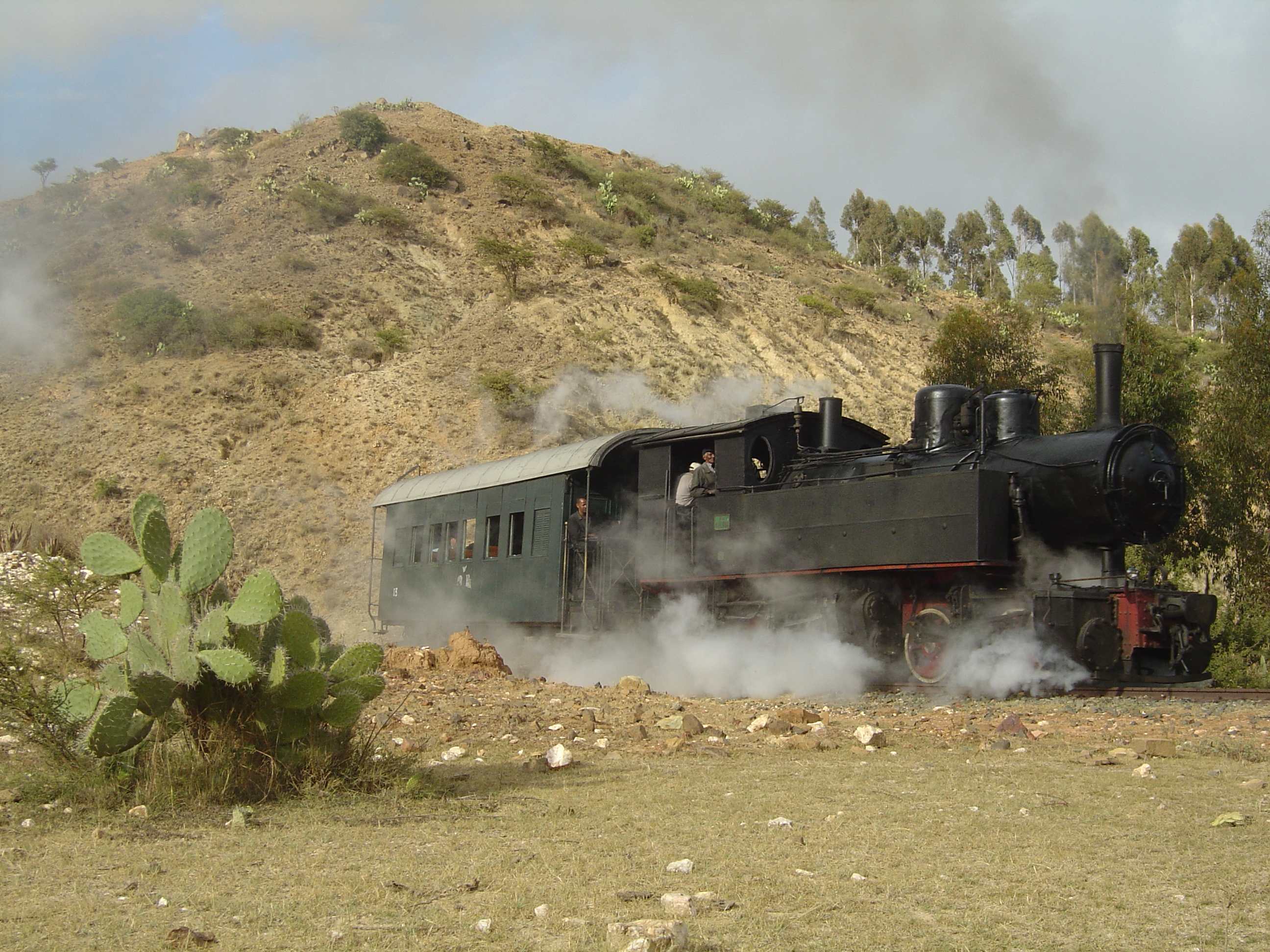 Eritrean Railway, class 440 locomotive